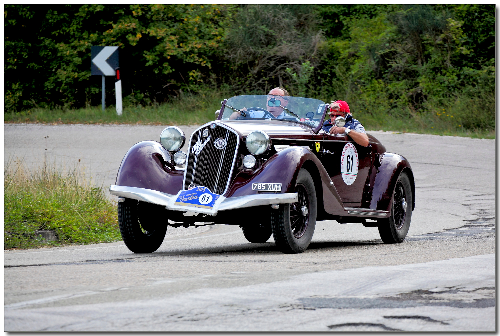 The Alfa Romeo 6C 2300 Pescara Spyder Touring 1935 at Gran Premio Nuvolari 2015 with Carlini - Martegani. This was the personal car of Benito Mussolini between 1936 and 1939.